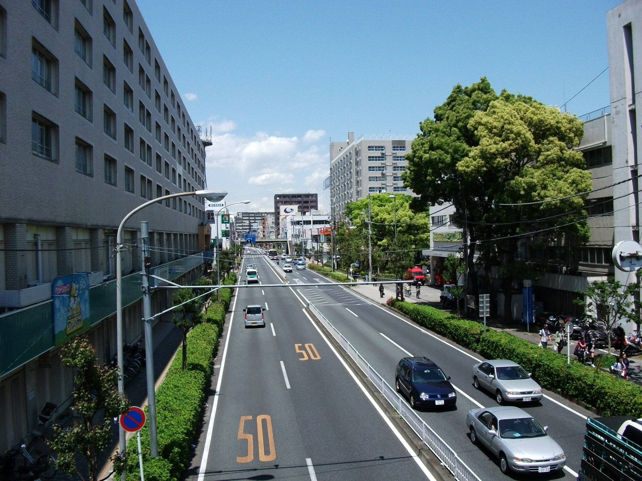 R16 Deiki-bypass(Yokohama, Japan)